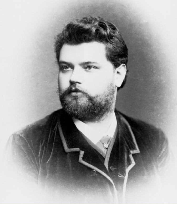 The portrait of Tchekh-German violinist Carl Halir (1859-1909)